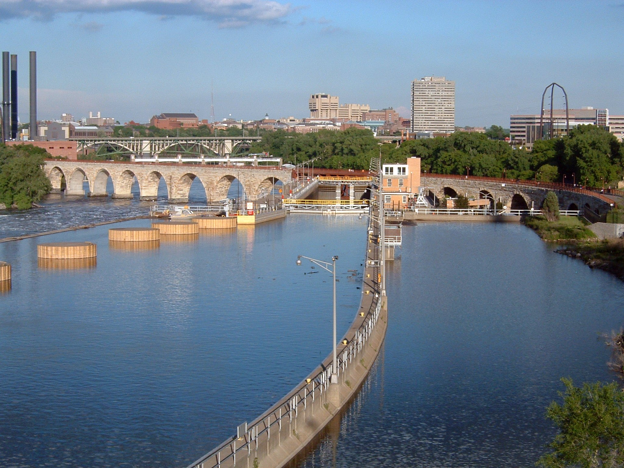 The upper lock at Saint Anthony Falls on the Mississippi River in Minneapolis, Minnesota with the Stone Arch Bridge curving across just downriver. Photo taken on May 29, 2005 by User:Mulad. Hereby released into the public domain. Viewed from the Third Avenue Bridge upriver.